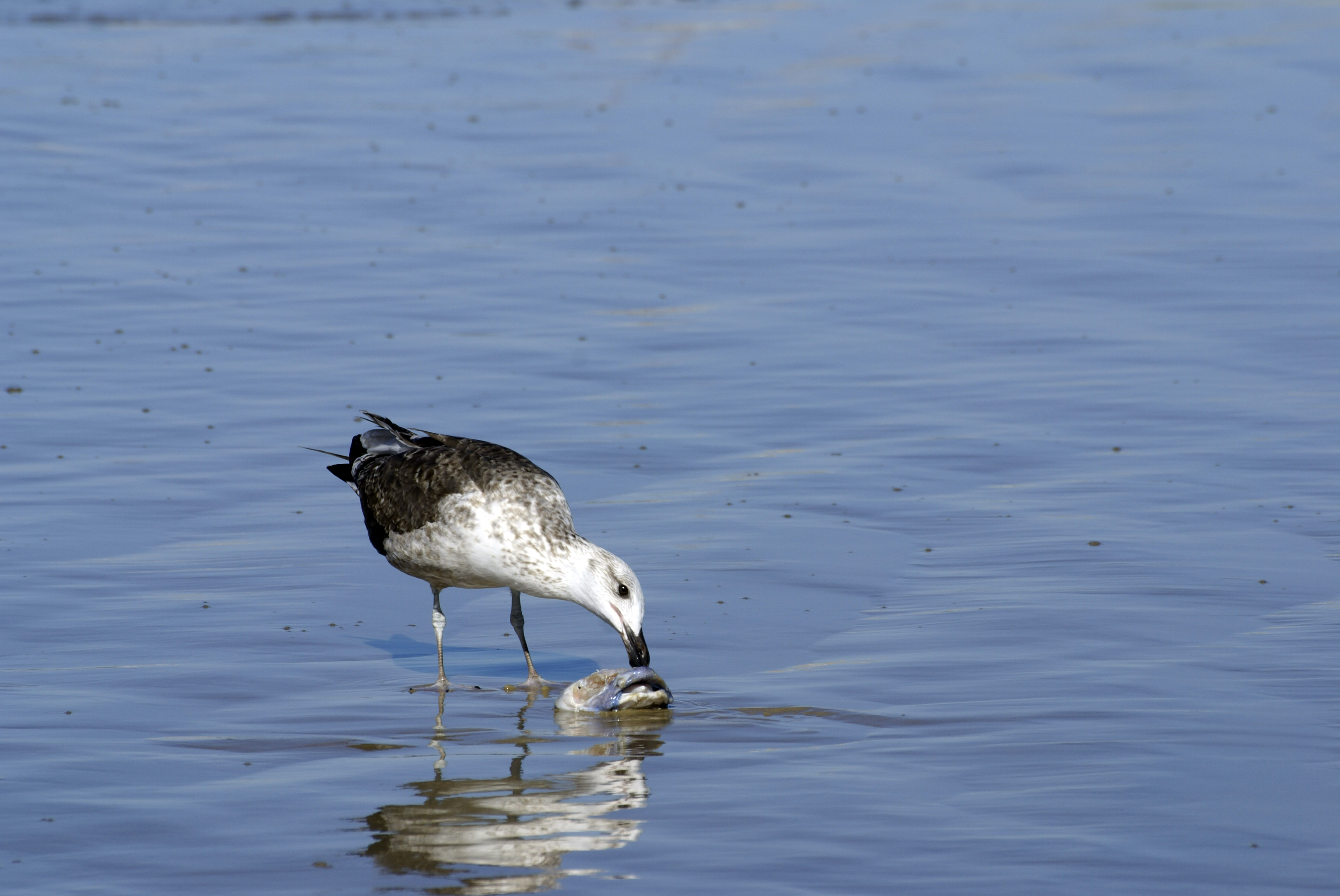 Juvenile Kelp, Larus dominicanus, eating what looks like a dead fish.